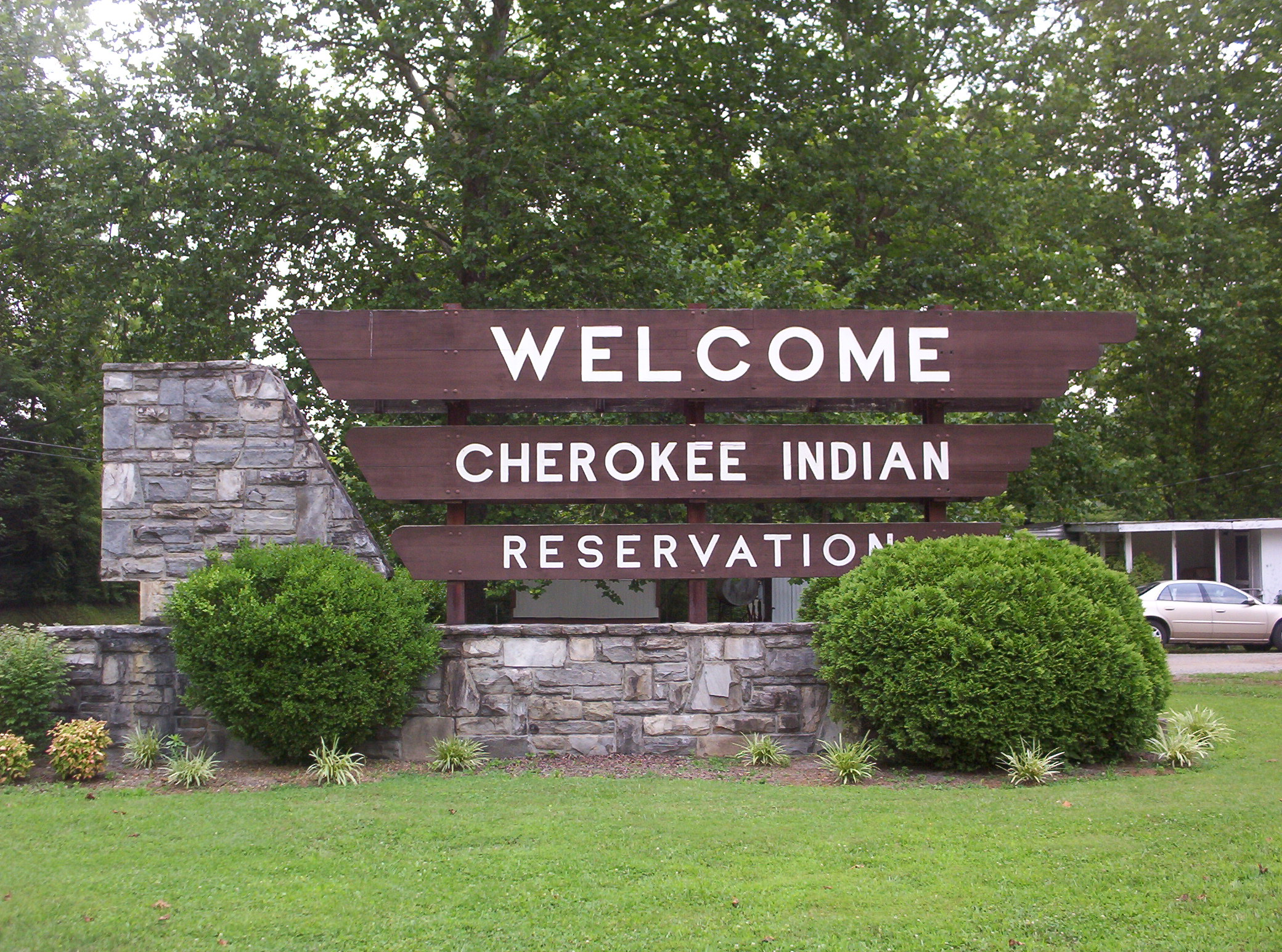 Cherokee Indian Reservation Sign, Cherokee, NC (by Terrill White) Summary Cherokee Indian Reservation Sign, Cherokee, NC (by Terrill White)